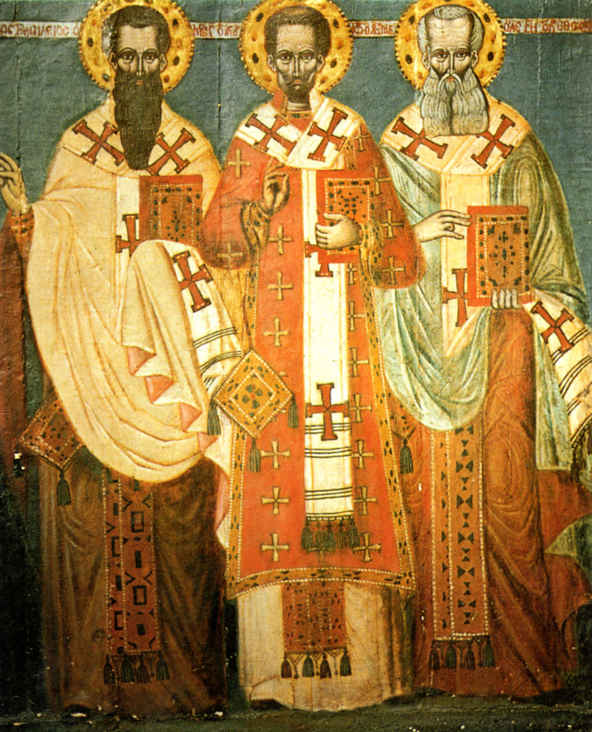 A painting brought from Oitylo on the Greek Peloponnese to Cargèse in Corsica by immigrants fleeing the Ottomans in 1675-6. It is now displayed in the Greek church of Saint Spyridon, Cargèse, Corsica. The painting is in egg tempera on a wooden panel and measures 92 x 109 cm. It depicts The Three Holy Hierarchs: Basil of Caesarea, Gregory of Nazianzus and John Chrysostom. It dates from the last quarter of the 17th century.